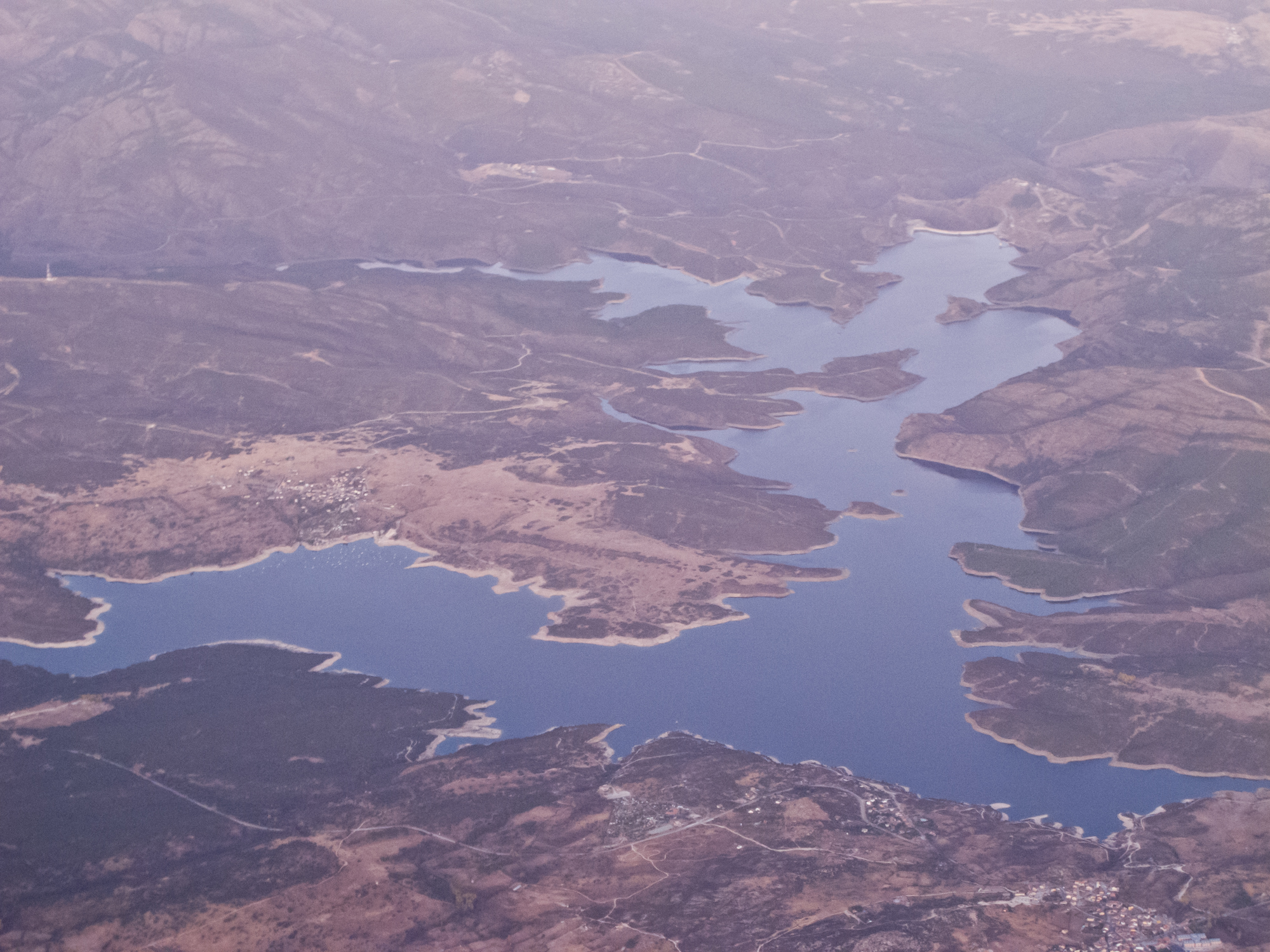 Aerial view of El Atazar Reservoir, Community of Madrid, Spain.